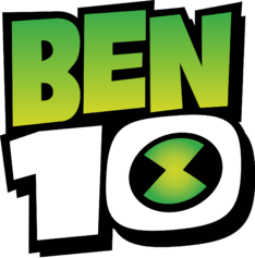 The logo for Ben 10 2016 reboot.